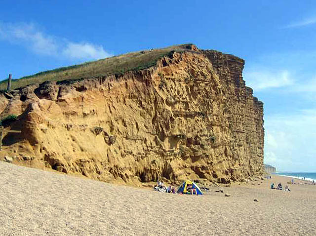 East Cliff at West Bay These cliffs are well worth the climb to the top for the outstanding views. For a full 360° panorama visit this